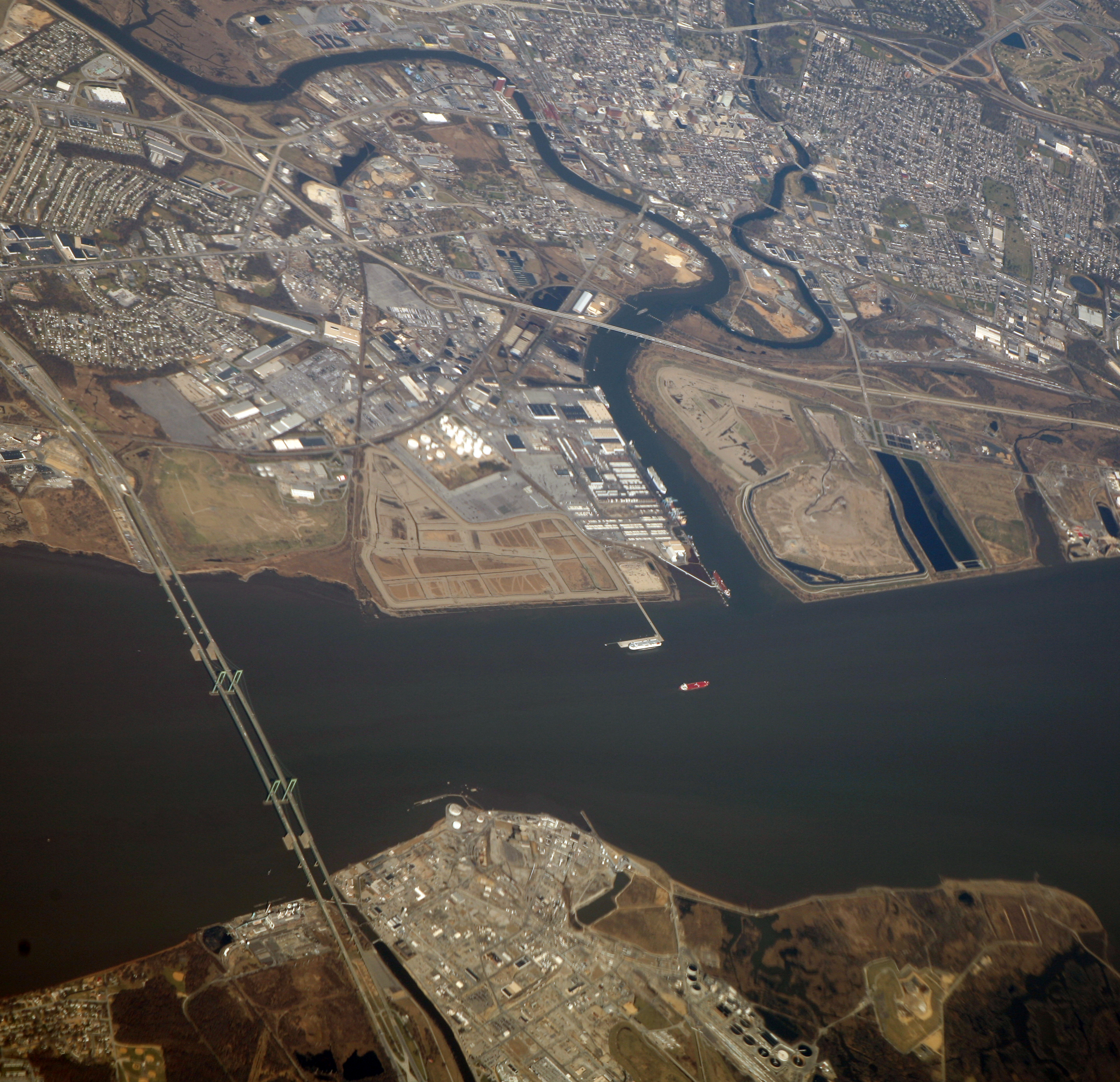 The Delaware Memorial Bridge between New Jersey and Delaware. Also Interstate 95 and 295. Wilmington, Delaware is above to the right.